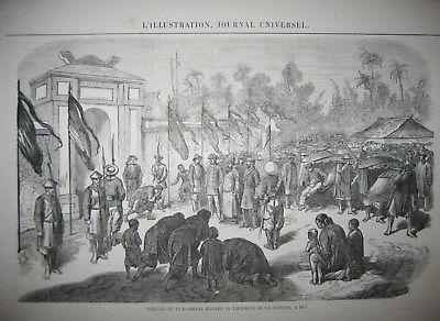 Arrival of Louis Adolphe Bonard in Huế, Vietnam, in April 1863